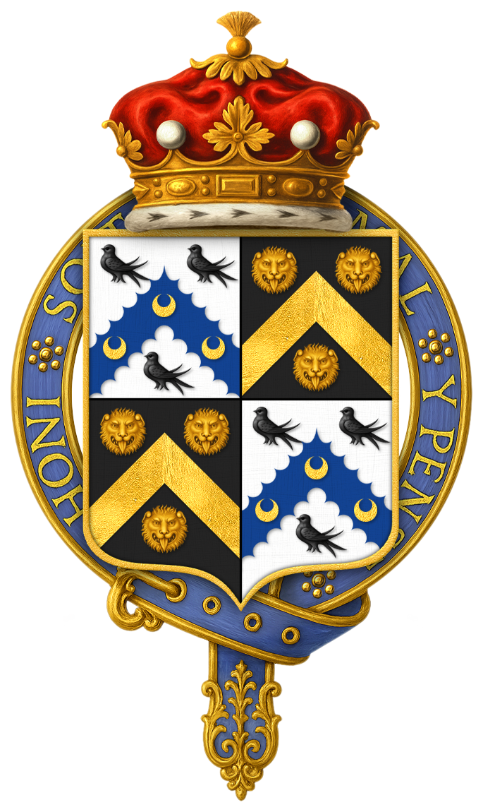 Coat of arms of Charles Watson-Wentworth, 2nd Marquess of Rockingham, KG, PC, FRS